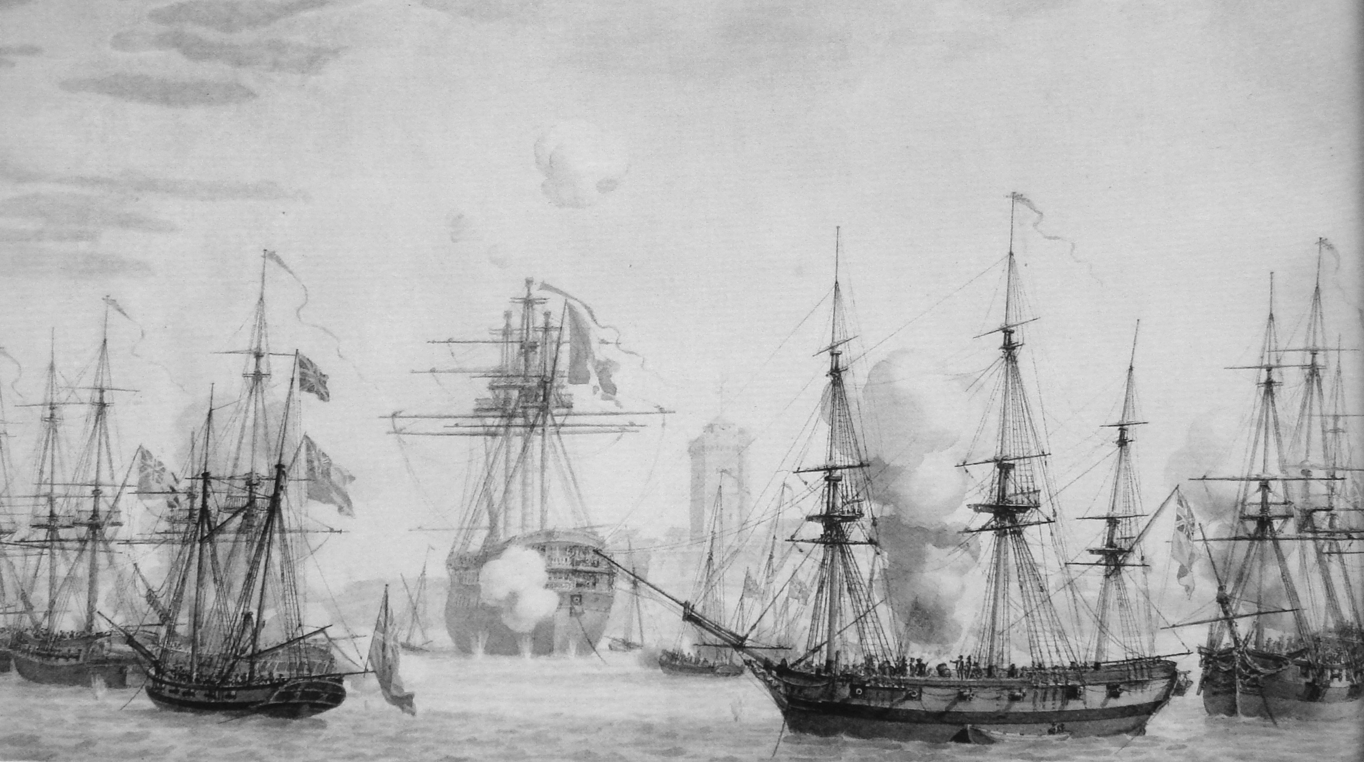 Regulus stranded in the mud in front of Fouras under attack by British ships August 1809